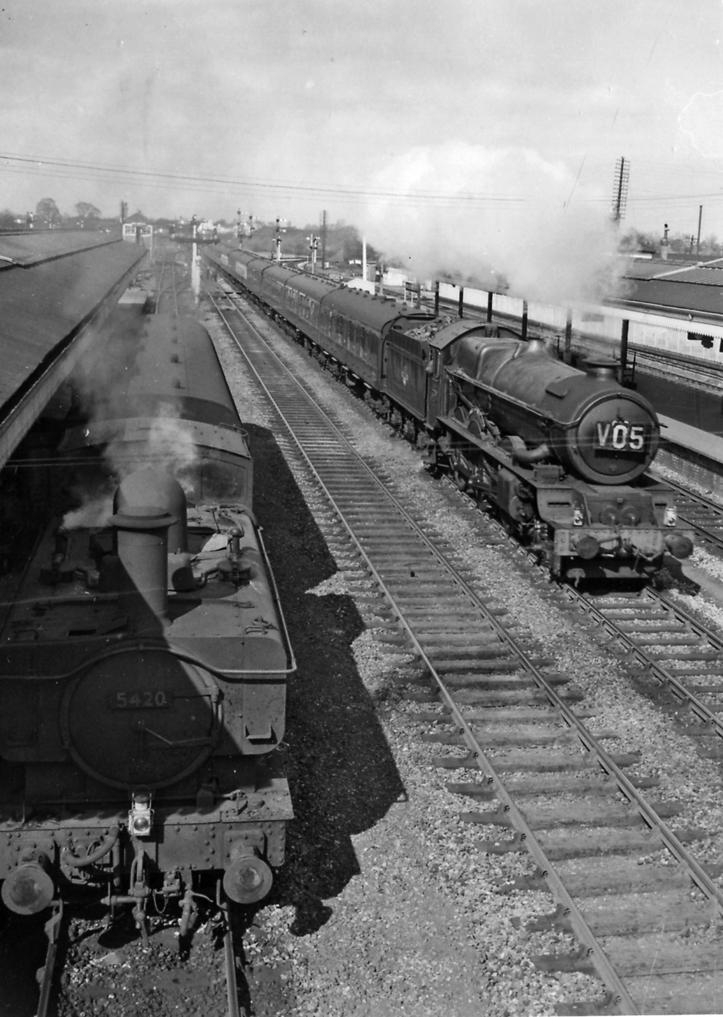 Princes Risborough station, with Up Birknhead - Paddington express rushing through, passing a Down auto-train. View northward, towards Bicester, Banbury, Birmingham and Chester/Birkenhead on the ex-GW main line, which is also shared (GW&GC Joint) by the ex-GC Marylebone - Leicester - Sheffield main line between Northolt and Ashendon Junctions. Just beyond the station, the GW lines to Oxford via Thame and the branch to Watlington turn off left and that to Aylesbury Joint to the right. The 08.55 Birkenhead Woodside to Paddington is headed by Collett 4-6-0 No. 6022 'King Edward III' (built 6/30, withdrawn 9/62). The auto-train on the left is working from High Wycombe to Banbury down the main line, with its engine (Collett 54XX 0-6-0T No. 5420) pushing from the rear.